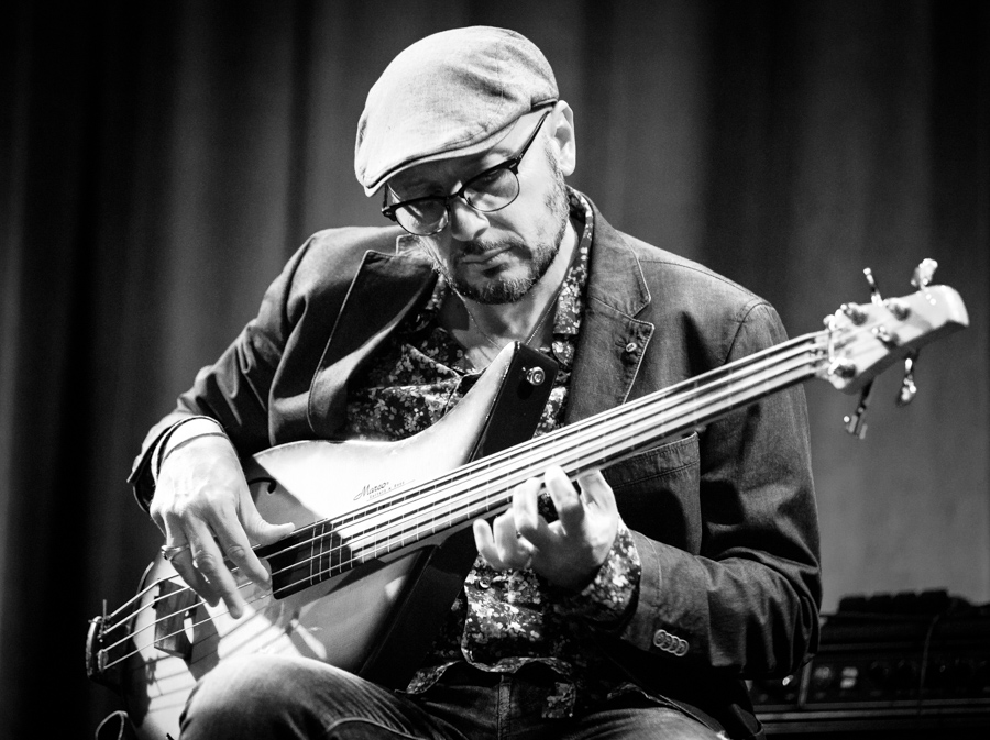 Dario Deidda with Kurt Rosenwinkel standards trio at the stage at Victoria Teater. The concert was part of Oslo Jazzfestival and took place on 16. August 2017. Lineup: Kurt Rosenwinkel (guitar), Dario Deidda (bass guitar) and Eric Harland (drums).